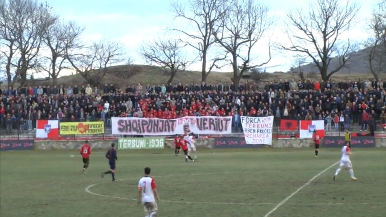 Photo during an Albanian First Division game between KF Terbuni Pukë and KF Adriatiku Mamurrasi at the Ismail Xhemali Stadium in 2015.